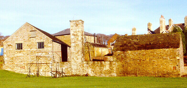 Ecclesall Mill, Millhouses, Sheffield, England. © Jeremy Atherton 2001.